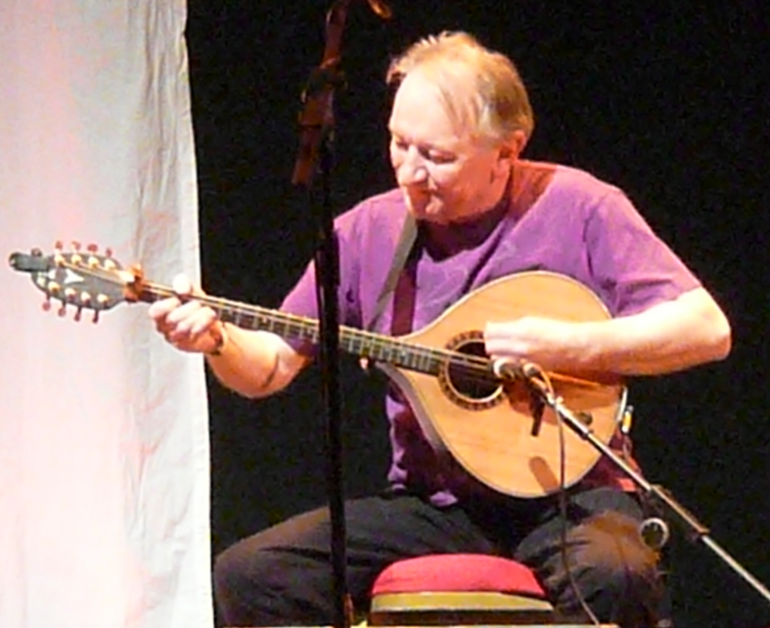 Dónal Lunny playing the bouzouki, backing Cara Dillon at the 2012 Bristol Folk Festival